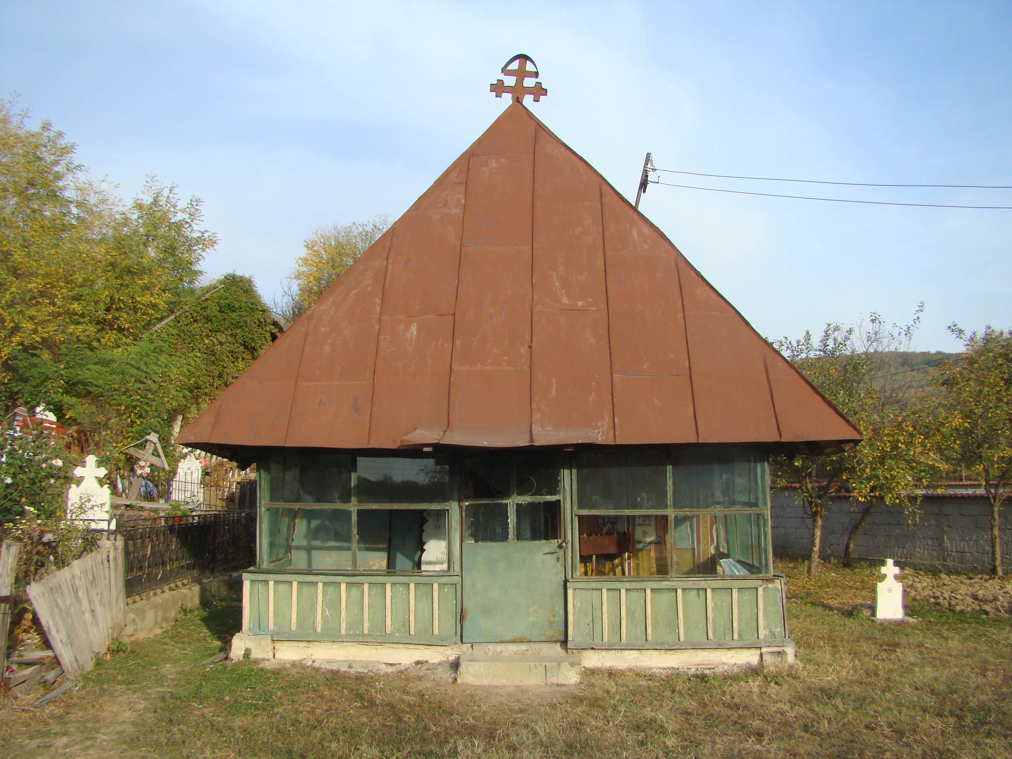 Wooden church in Piscuri, Gorj county, Romania